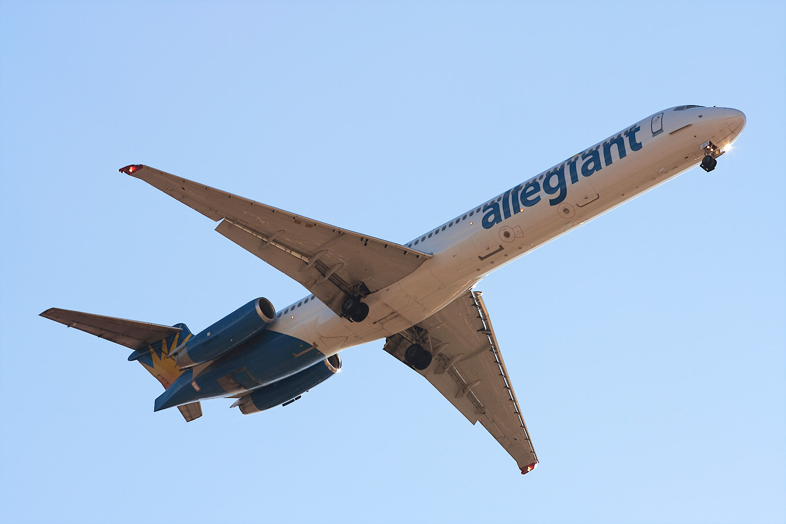 Landing in Smyrna to take the MTSU Blue Raiders football team to Louisiana.